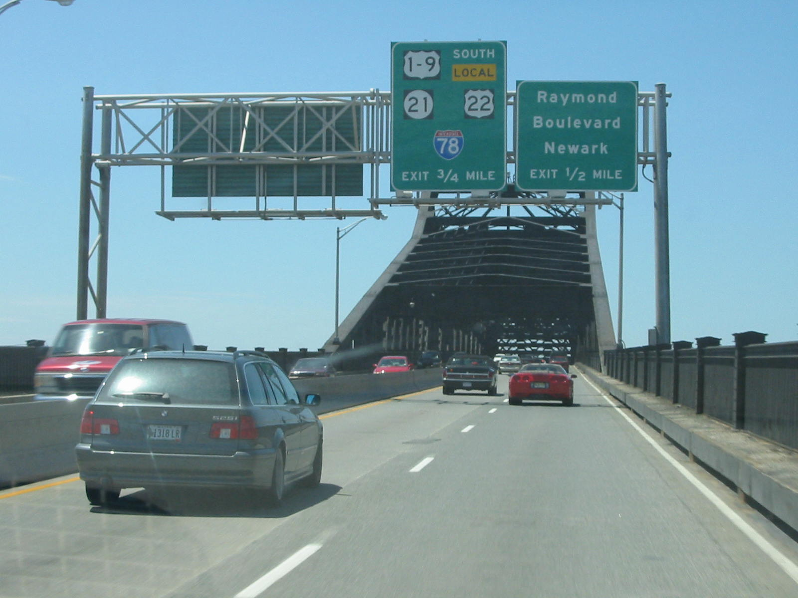 Southbound on the Pulaski Skyway at the bridge over the Passaic River.